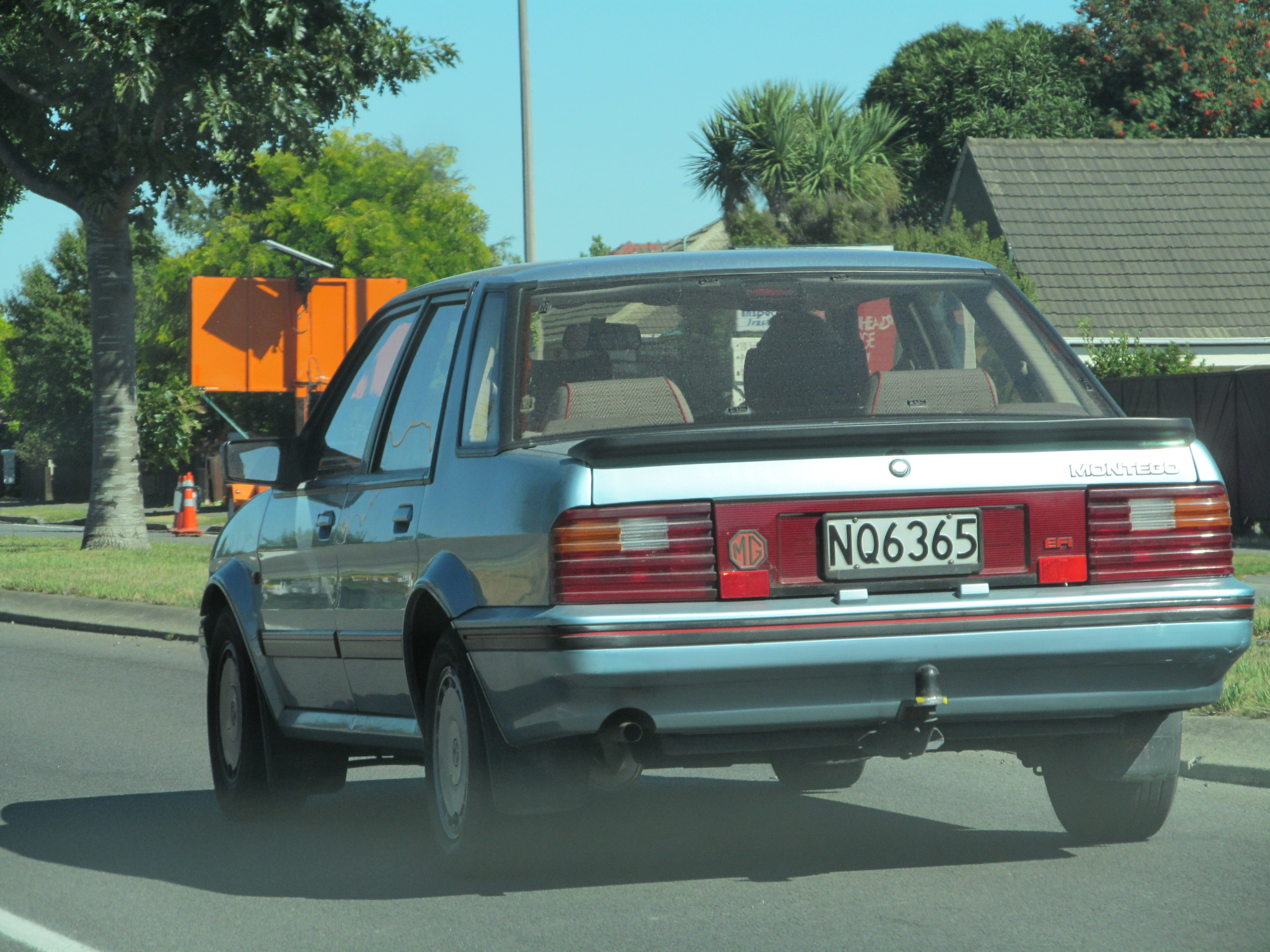 NQ6365 I've decided to go with a bit of an 80s Britain theme tonight, with the Sierra and now this Montego! It really was in fantastic condition, with an older man giving it the curry behind the wheel. It was pretty noisy though... Montegos were sold in NZ from 1984 to 1991, with the last models being MG badged regardless of spec. The first models sold here were the Austin-badged Mayfair and HLS estates, then the MG badged saloon and Austin-badged Vanden Plas saloon. The range was renamed MG 2.0 in 1989, on both saloons and estates.